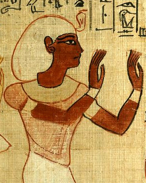 King Herihor and Queen Nodjmet adoring the god Osiris in the afterlife. From the Book of the Dead papyrus of Nodjmet, c. 1050 BC.